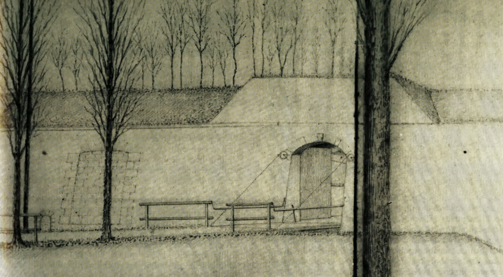 View of New Sint-Maartenspoort, the northeastern city gate of the Maastricht suburb Wyck. Drawing by Jan Brabant ((1806-1886).